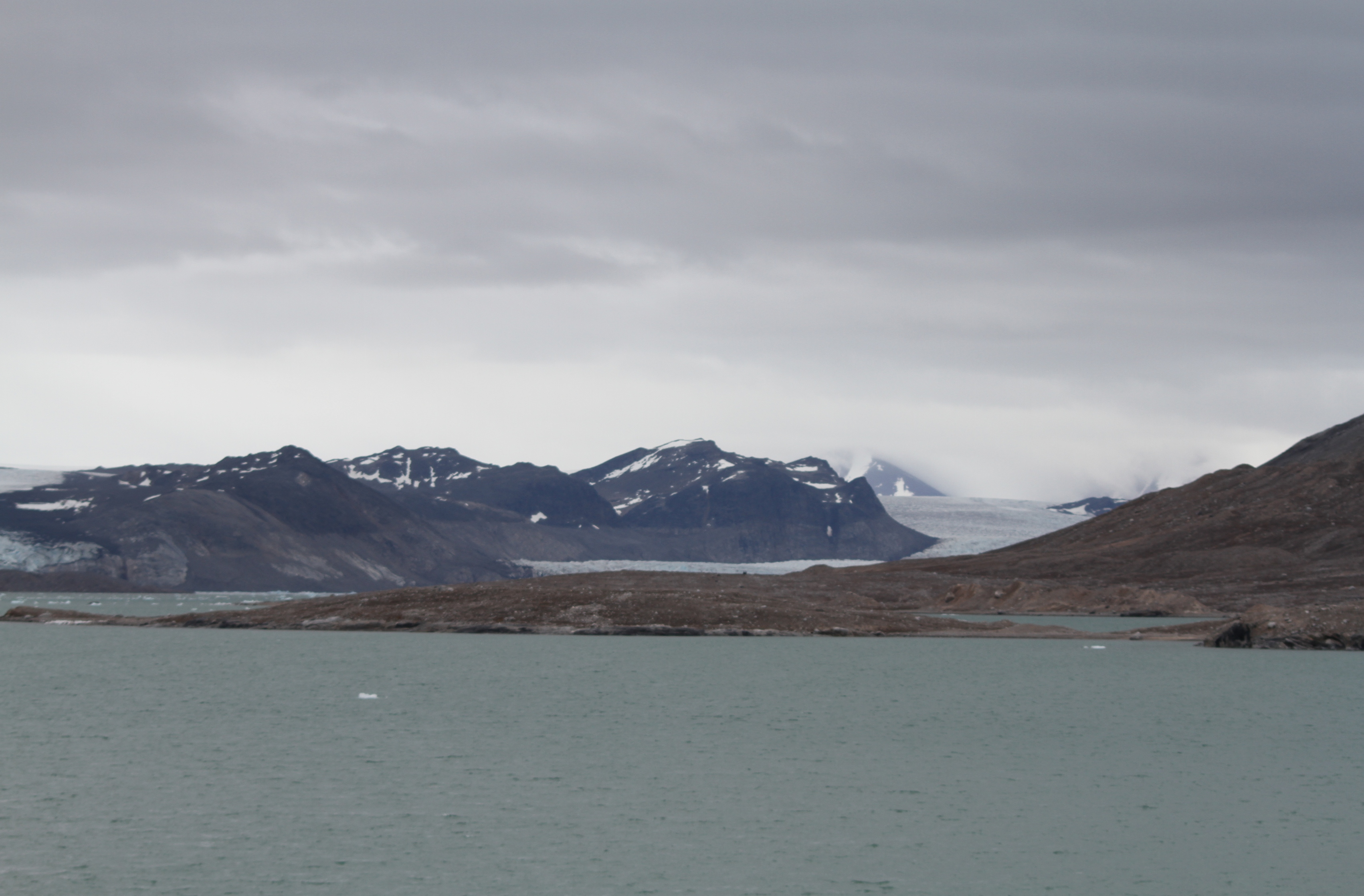 Breöyane islands in the front, which form the Blomstrandhamna Bird Game Reserve (Blomstrandhamna fuglereservat) in Kongsfjorden, Svalbard, Norway. In the background is Conway Glacier (Conwaybreen). Spitsbergen, Norway.